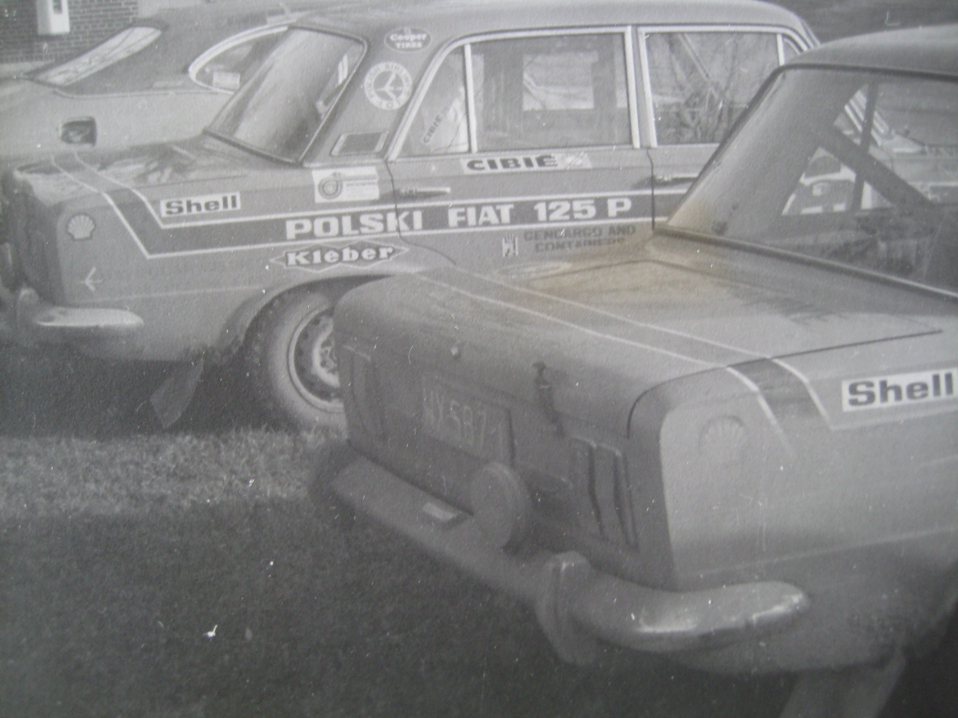 Two Polski Fiat 125ps during Regardless Rally, Alma, Michigan, 1971.jpg